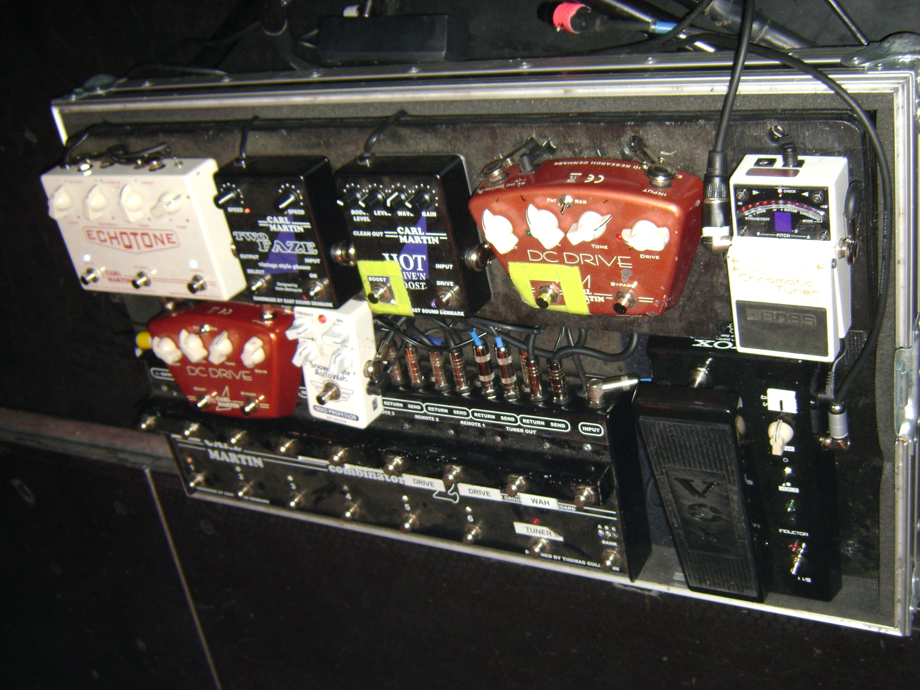 Tim Christensen's effect pedal board, photographed before the November 6, 2010 show in The Hague. It contains mostly Carl Martin effect pedals.